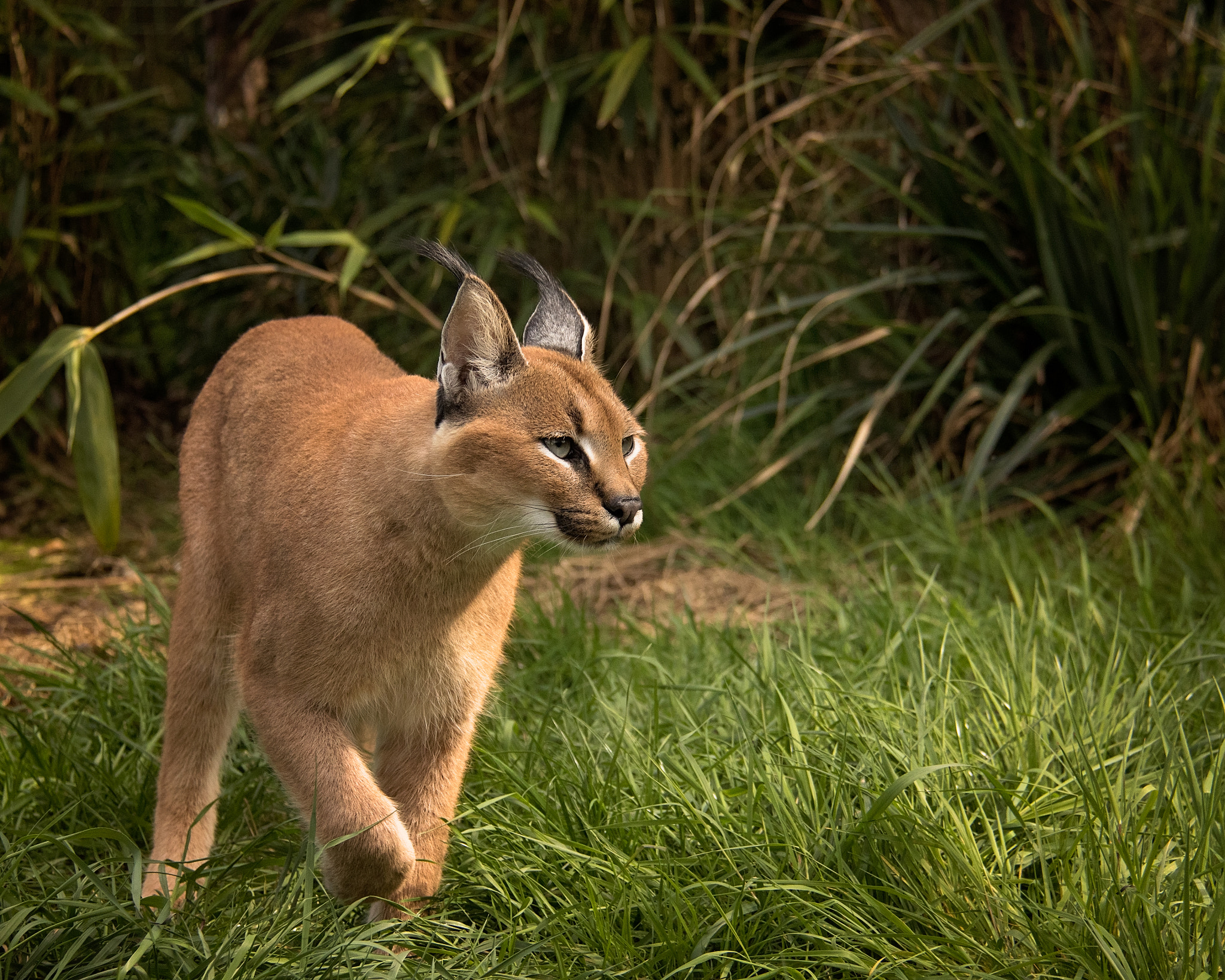 500px provided description: Griffin, a Caracal taken at The Big Cat Sanctuary in Kent, England by Lee Elvin. [#cat ,#animals ,#animal ,#cats ,#kitty ,#feline ,#wildcat ,#caracal]